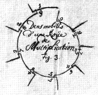 This drawing from Leibniz reads in